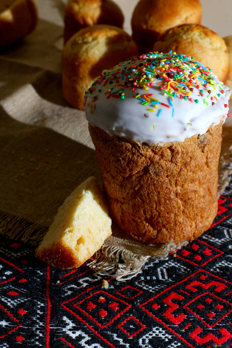 Kulich is part of the Russian easter bread called Paska, its a famous variant of Russian paska breads